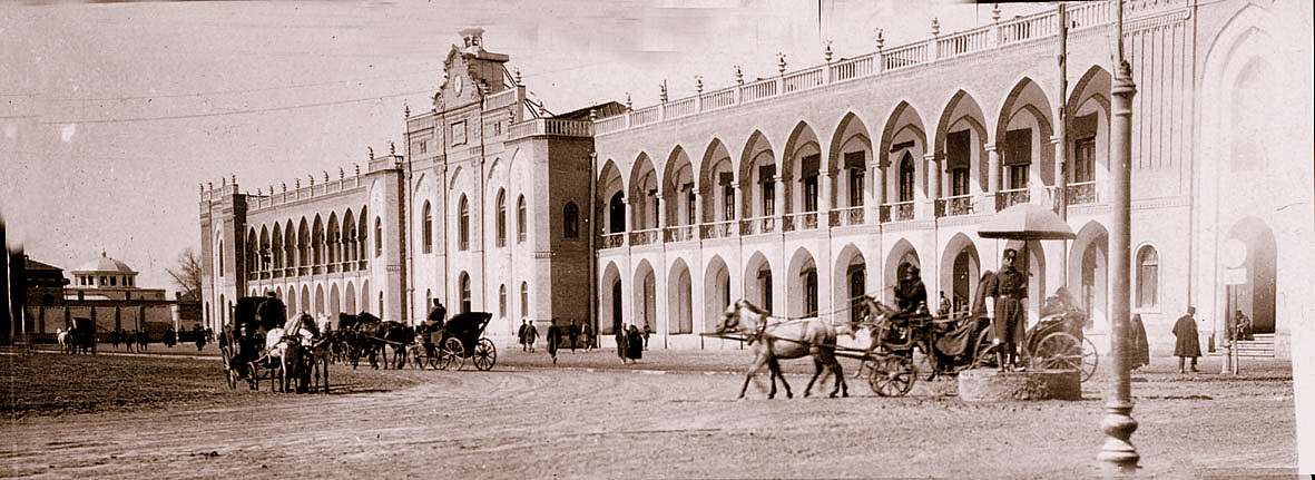 Tehran Shahrdari Building (Sakhteman Shahrdari), The City Palace (Emarate Baladieh) in Sepah Sq. (Toopkhaneh), Tehran in 1930s to 1940s